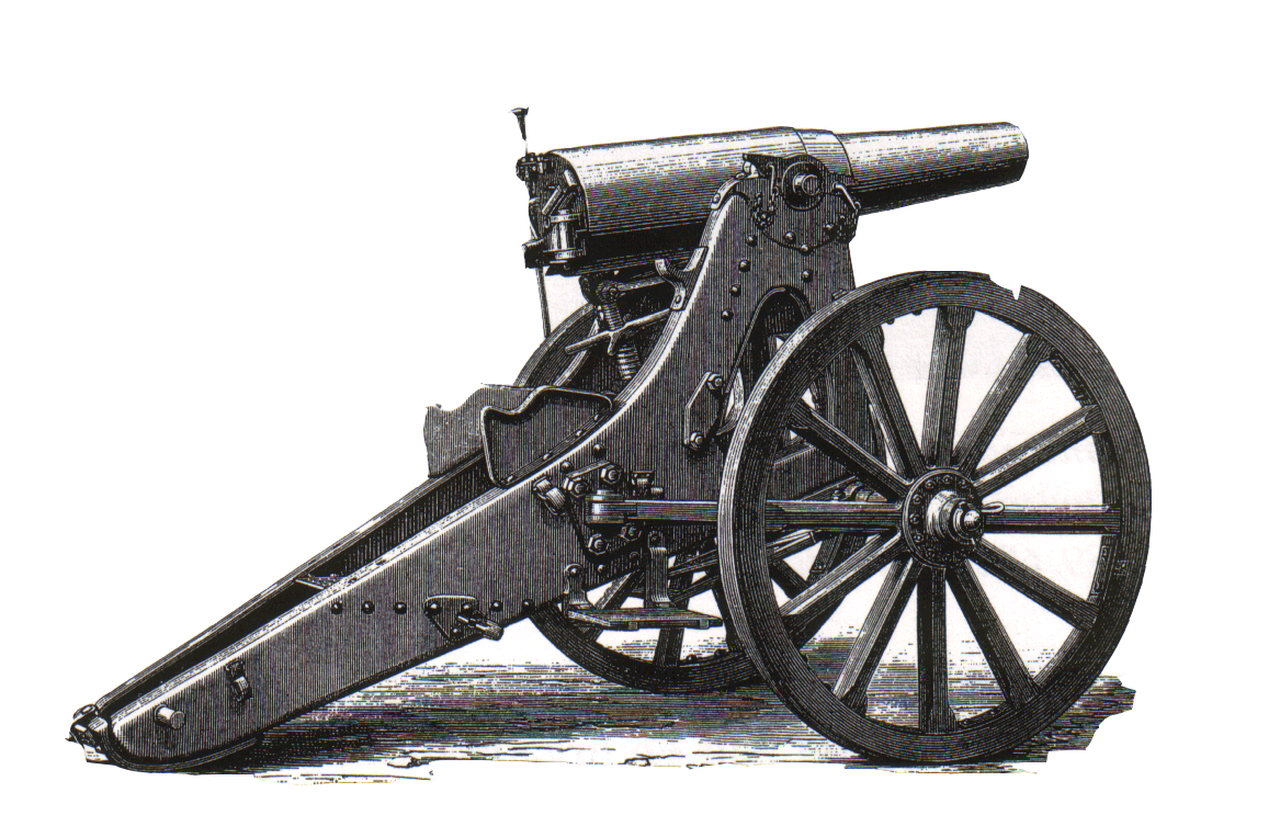 Krupp 15 cm steel cannon M.1884. The so-called "Woman's cannon" since it was bought and donated to the Danish defence by Danish women.